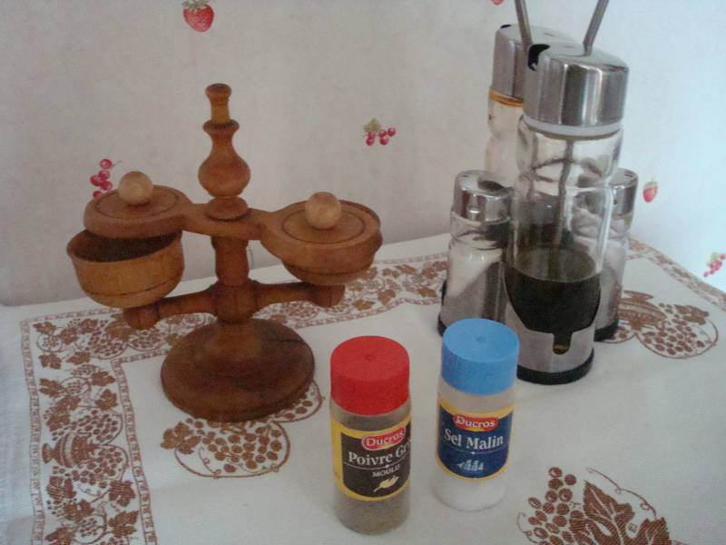 Cruet set for salt, pepper, oil and vinegar.